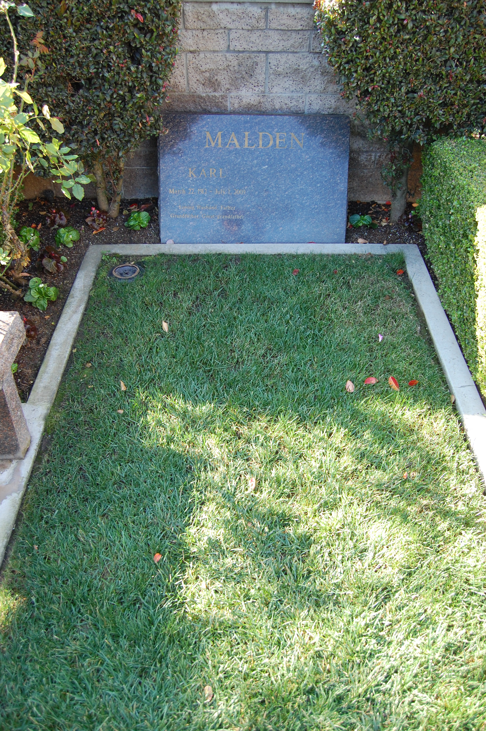 Karl Malden's grave at Westwood Village Memorial Park Cemetery in Brentwood, California. Taken December 2011.